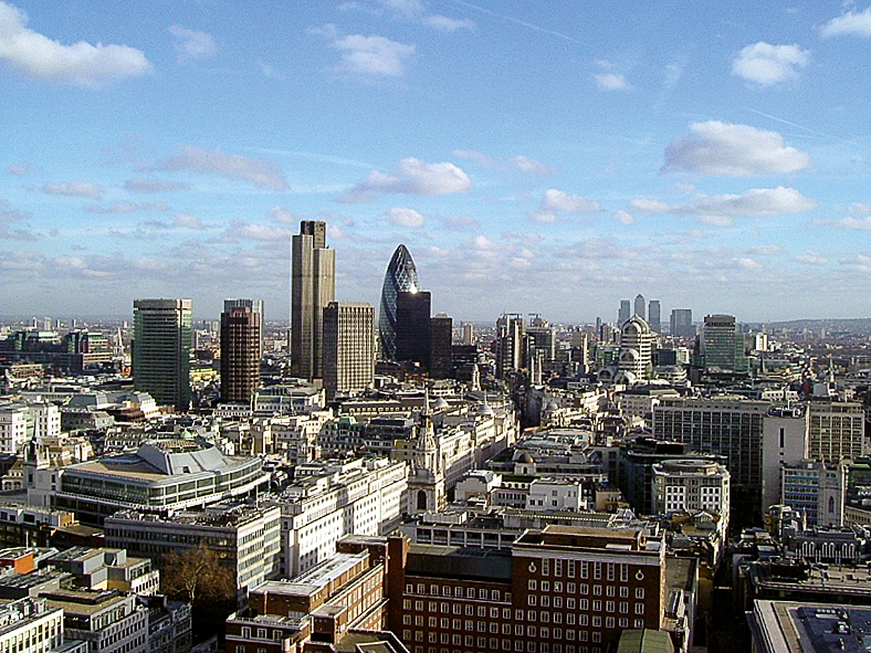 City of London by Joe D, January 2005.